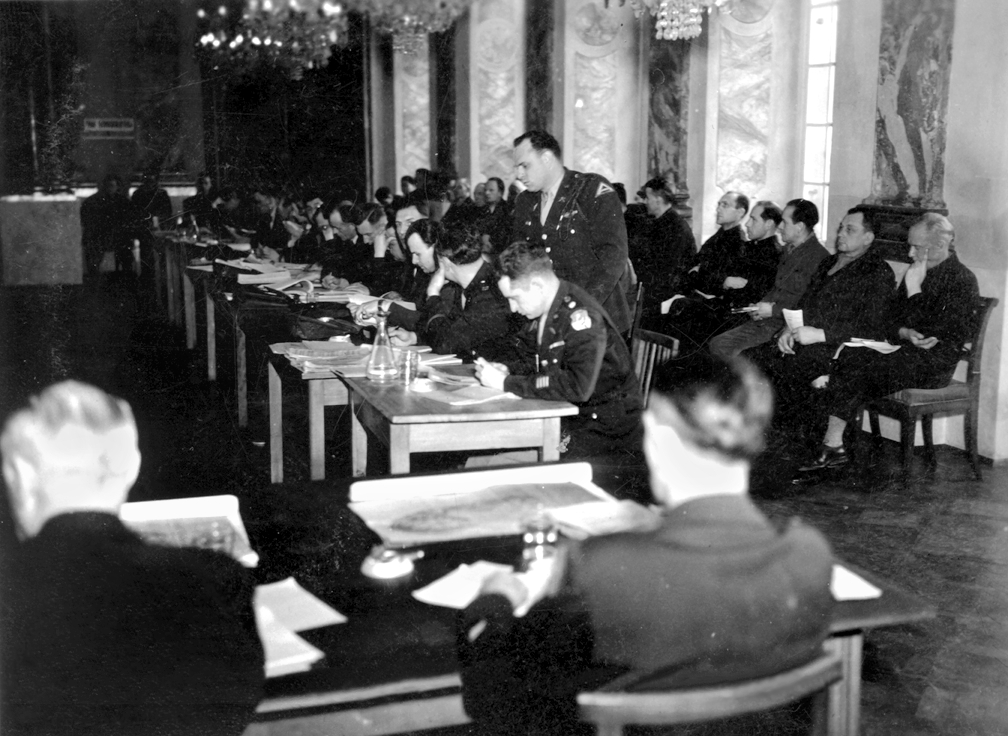 The defense team for the Borkum Island War Crime Trial at Ludwigsburg. Four American officers; ten German lawyers; fifteen accused - all Germans including officers, enlisted men, and civilians.